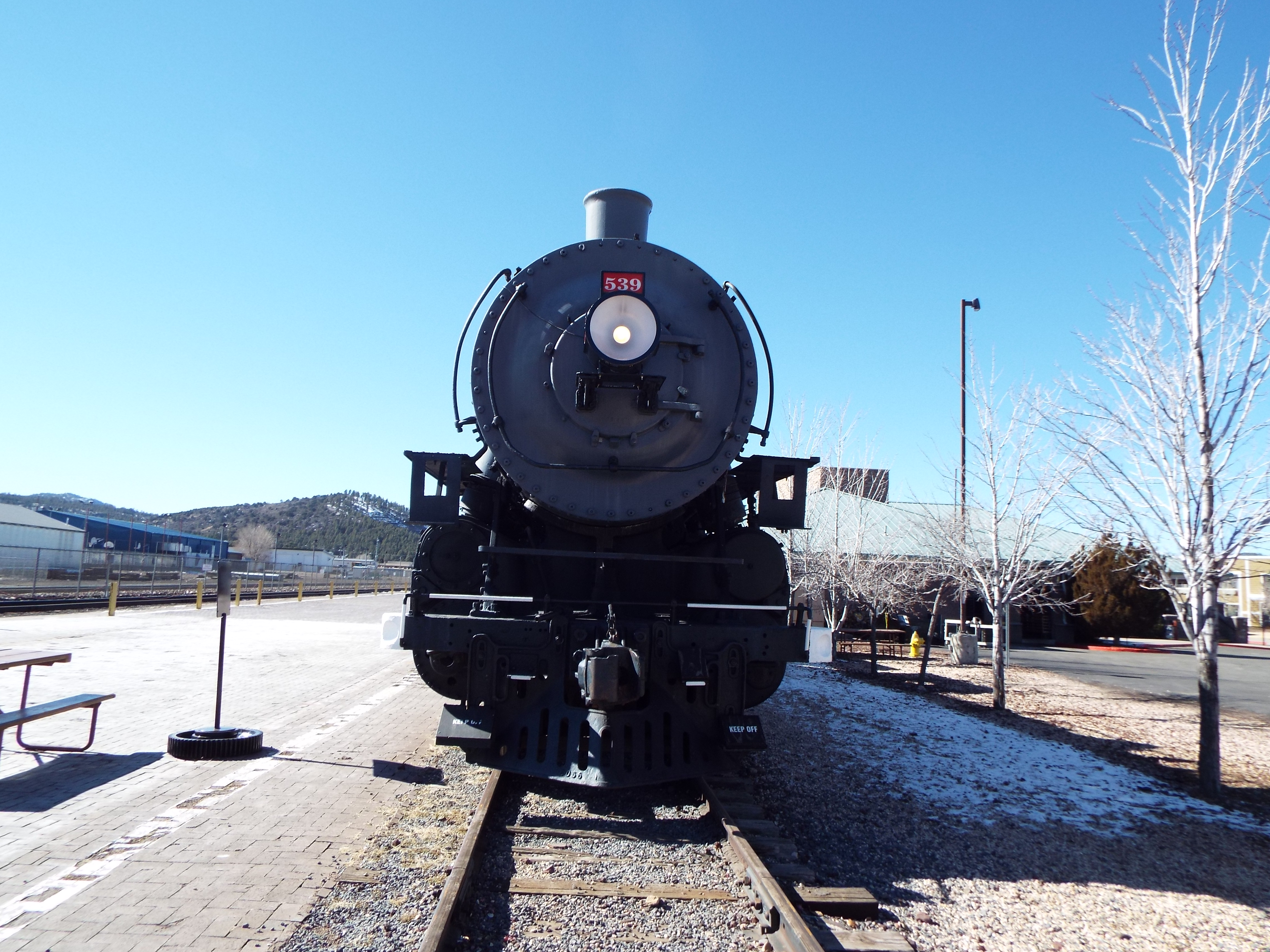 Pictured is he Grand Canyon Railway Locomotive No. 539 which was built in 1917 and is located at 235 N. Grand Canyon Blvd. in Williams, Arizona